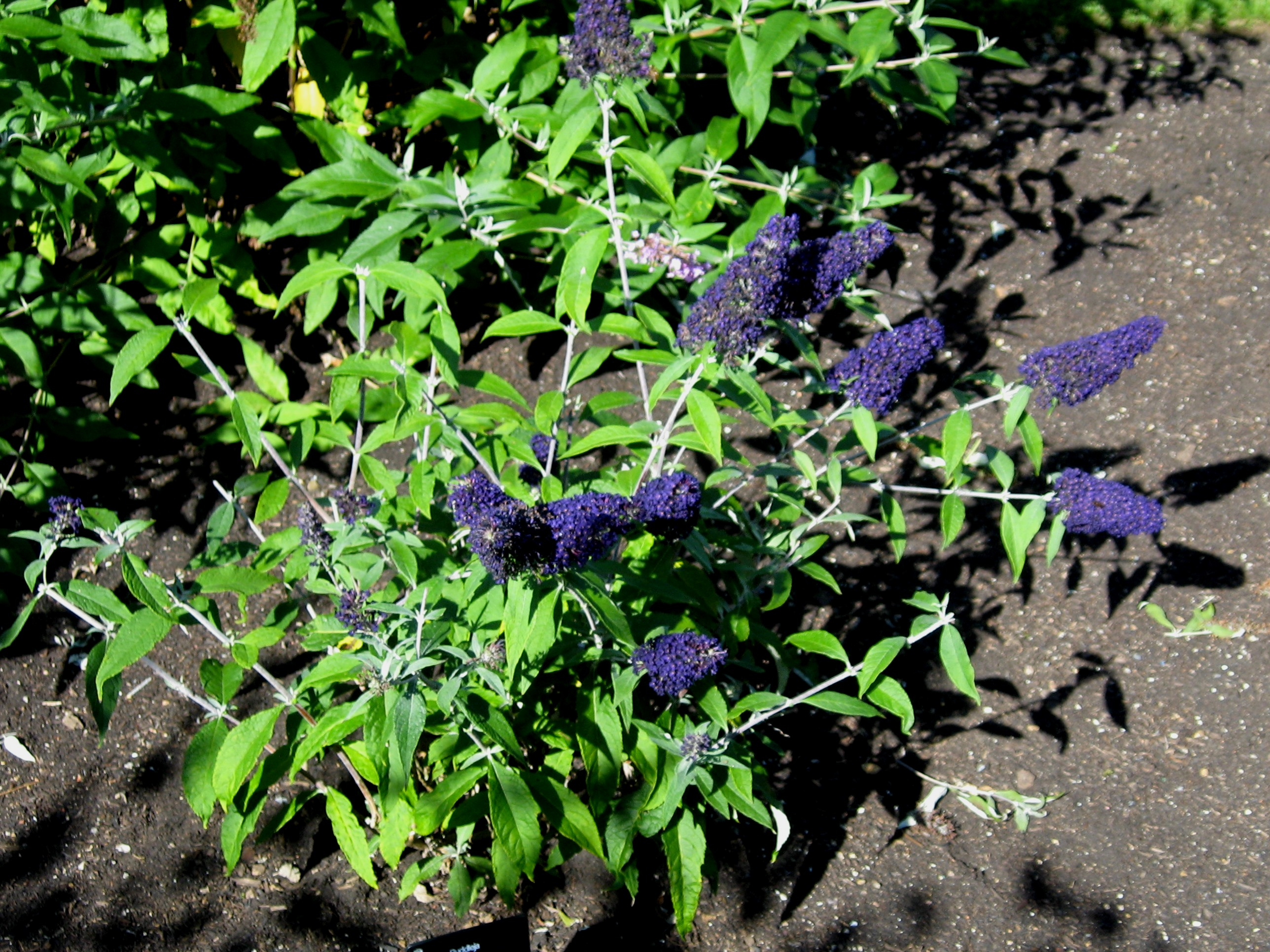 Photo of a Buddleja BUZZ INDIGO taken at Longstock Park Nursery, near Stockbridge, UK